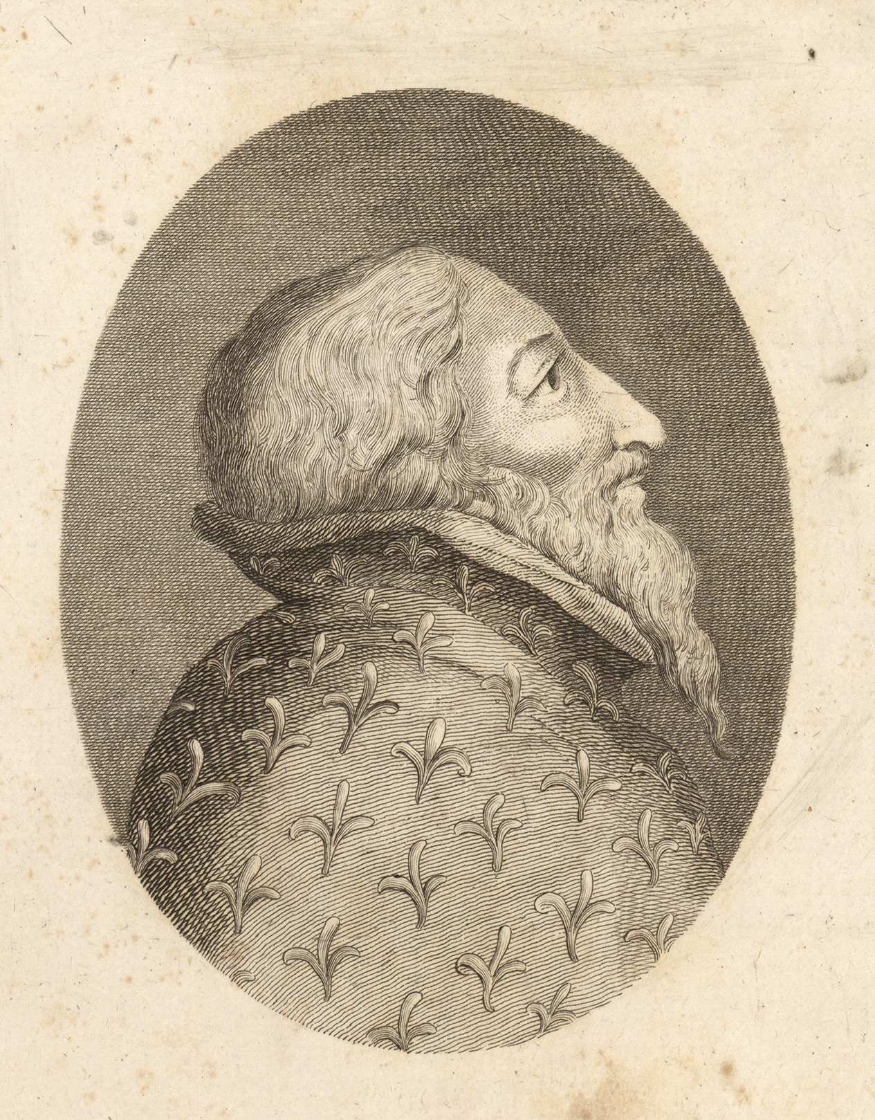 An image from a set of 8 extra-illustrated volumes of A tour in Wales by Thomas Pennant (1726-1798) that chronicle the three journeys he made through Wales between 1773 and 1776. These volumes are unique because they were compiled for Pennant's own library at Downing. This edition was produced in 1781. The volumes include a number of original drawings by Moses Griffiths, Ingleby and other well known artists of the period. Thomas Pennant (1726-1798)